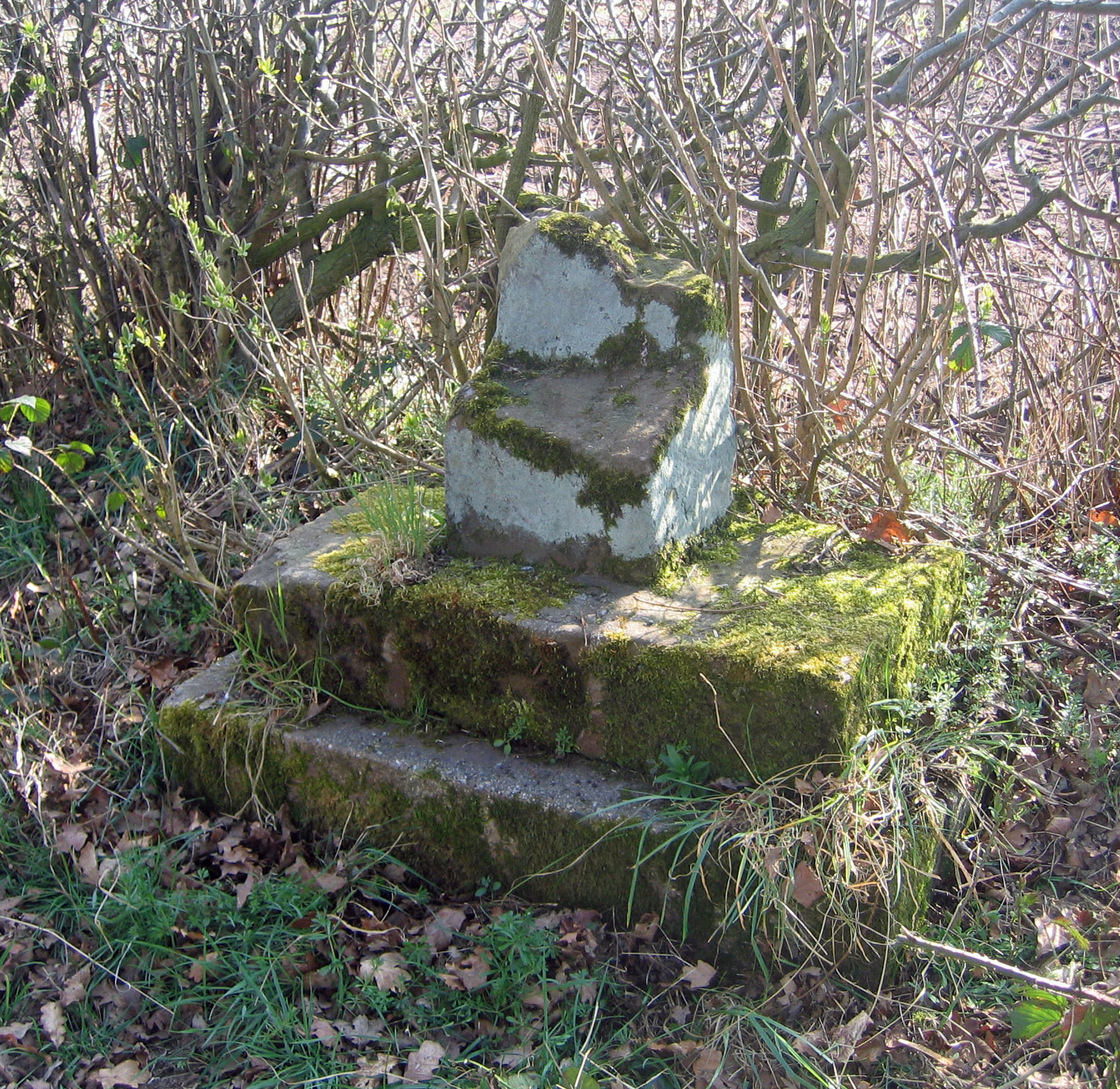 Photograph of the scheduled ancient monument in Longstone Lane known as the Longstone